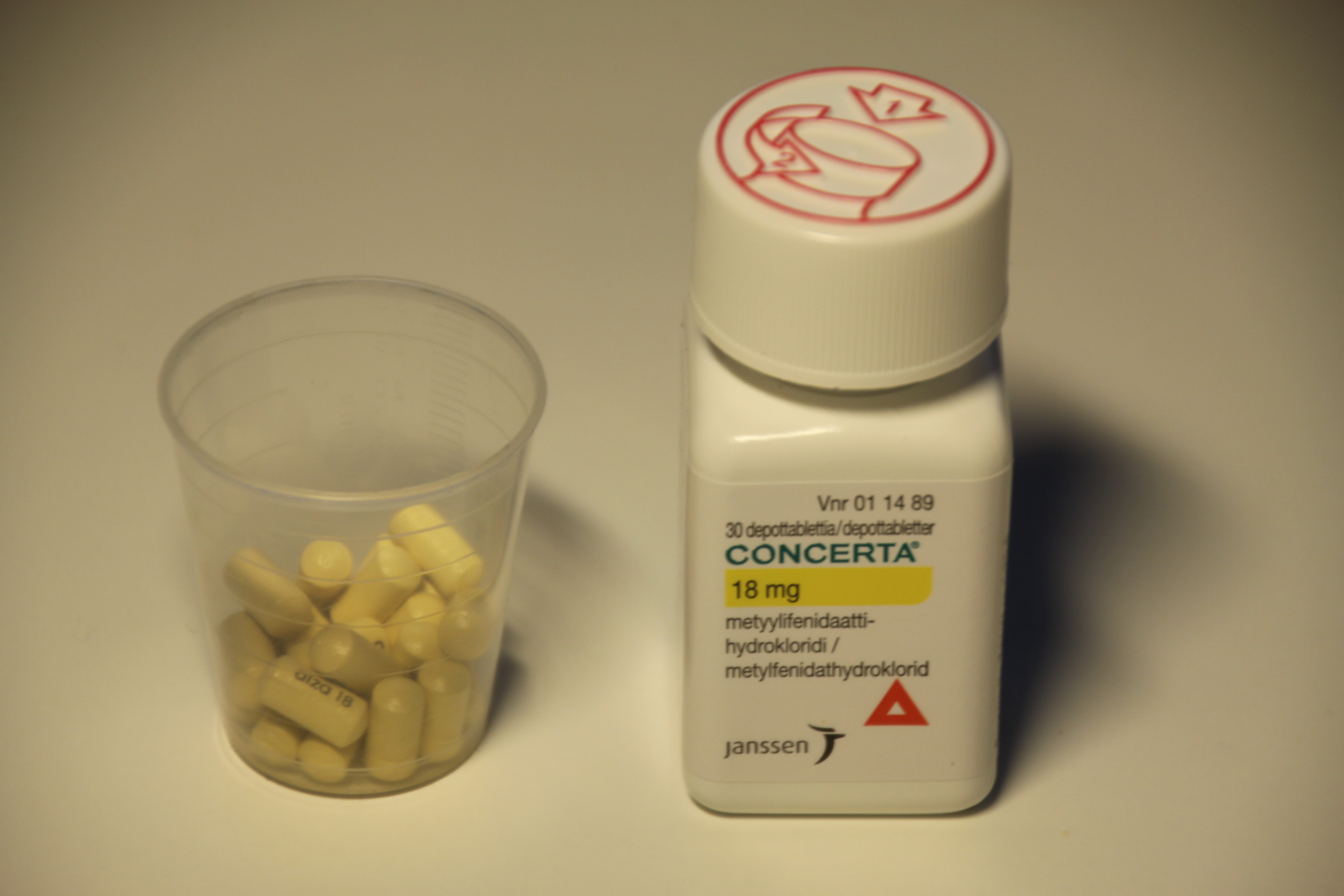 Concerta 18mg -tablets and package.